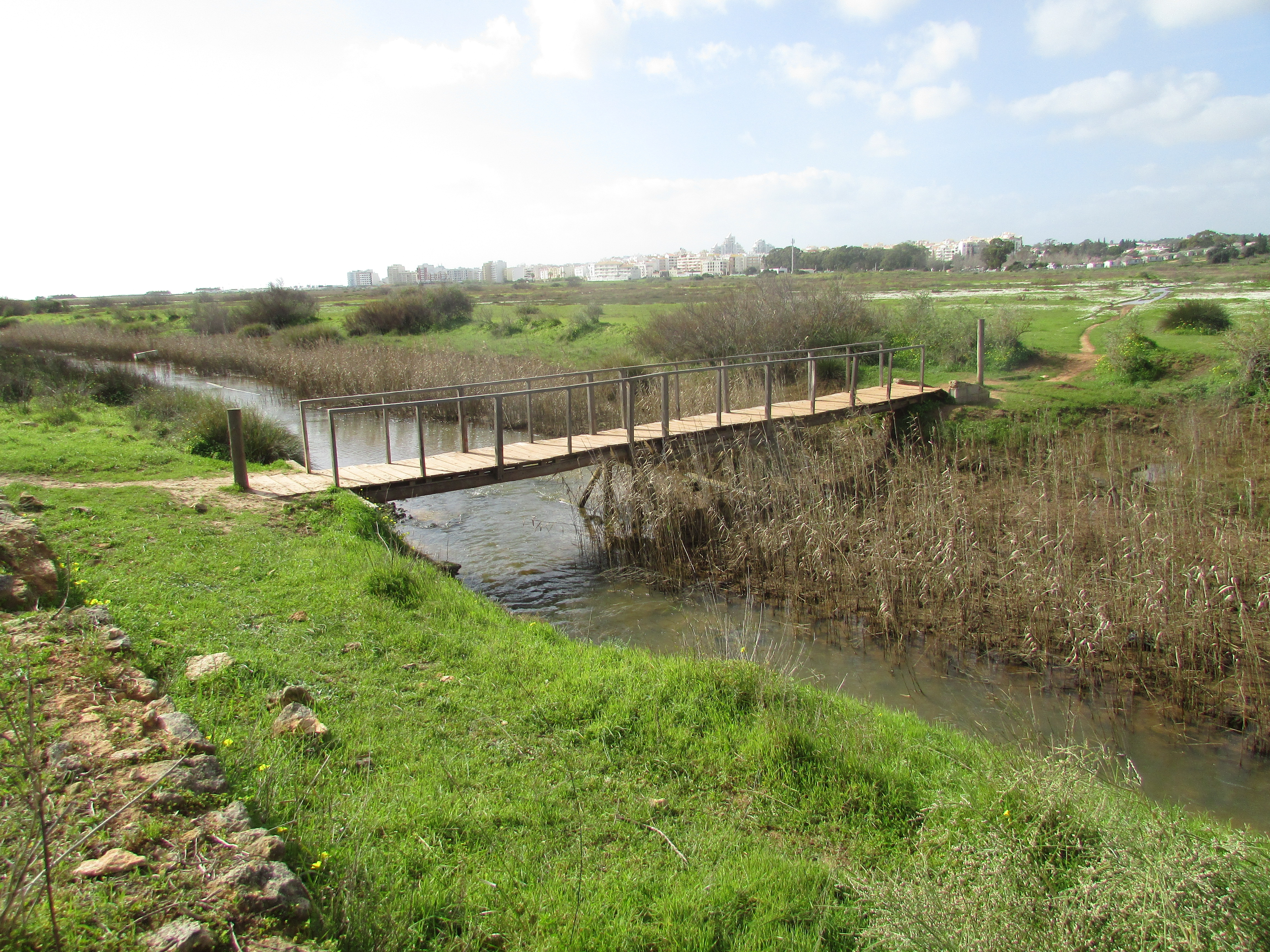 A footbridge over the Alcantarilha river which leads to the Alcantarilha saltmarshes close to the town of Armação de Pera, Algarve, Portugal.